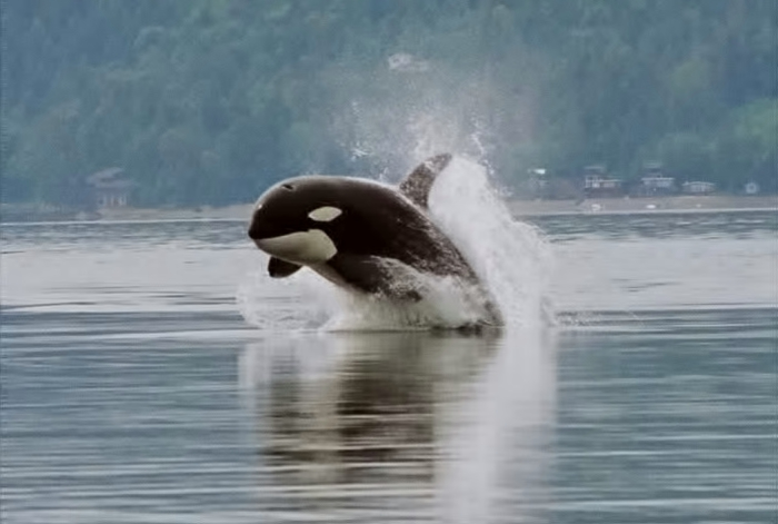 Cropped version of the single breaching orca picture from Hood Canal. May 2005.